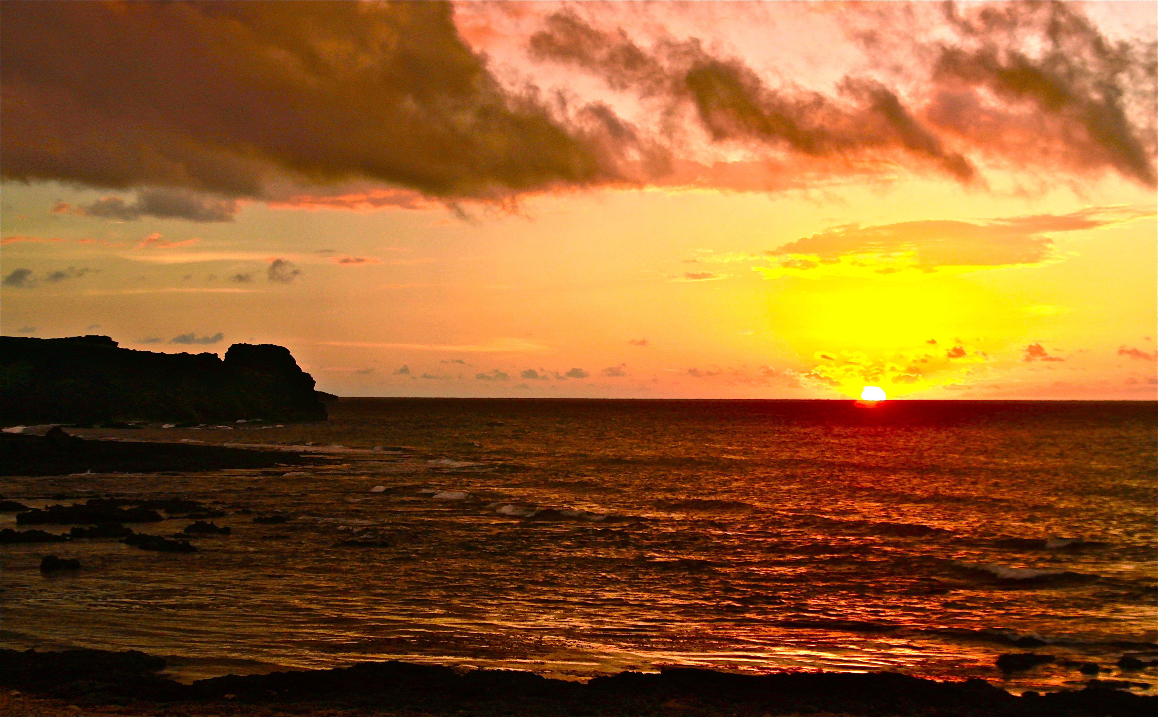 Pagudpud Sunset while standing at the Patapat Viaduct. Pagudpud, Ilocos Norte